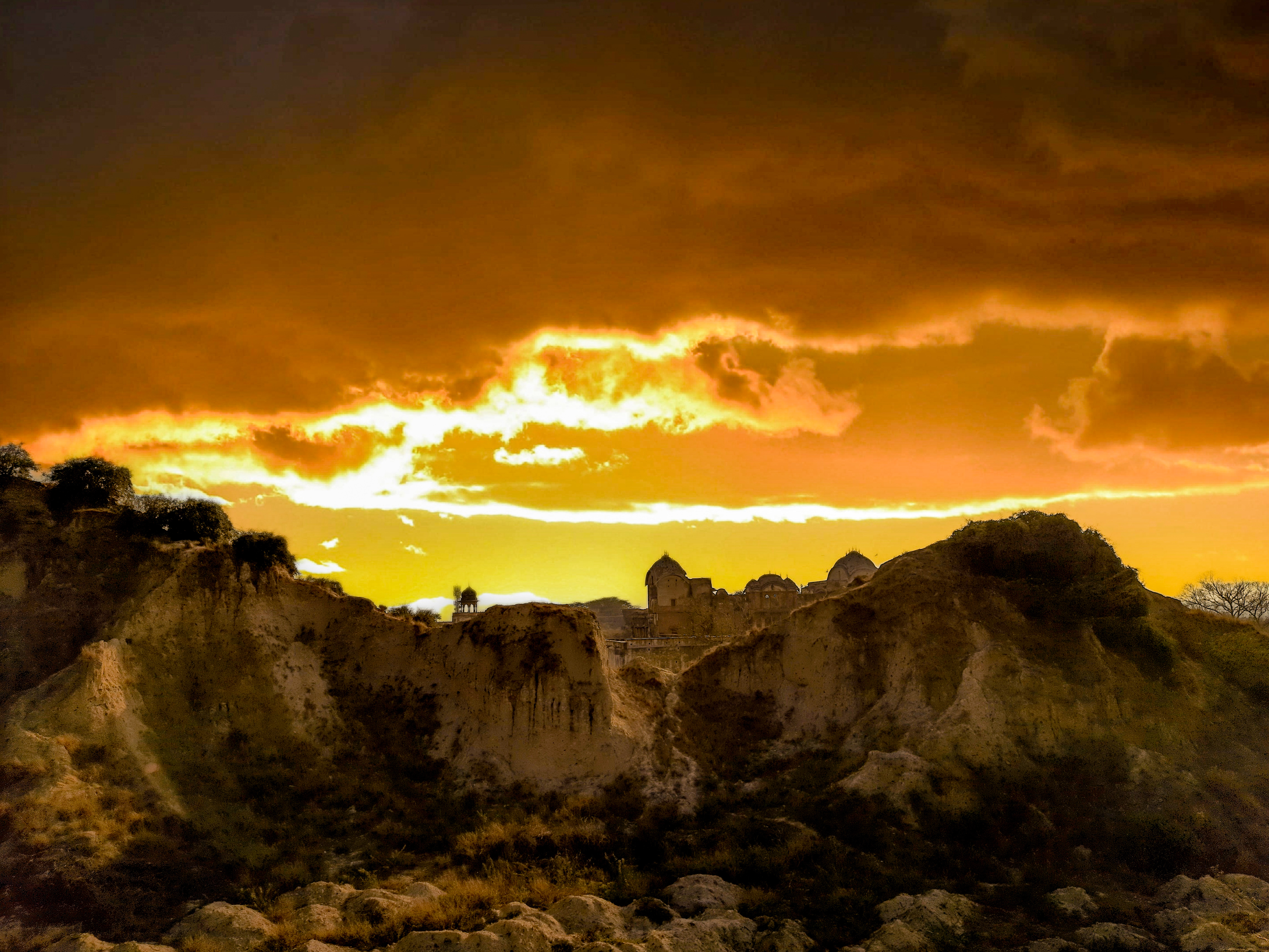 Deeg fort in Deeg town in Bharatpur district Rajasthan, India